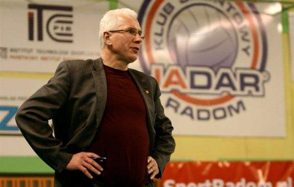 Jacek Skrok - polish volleyball player